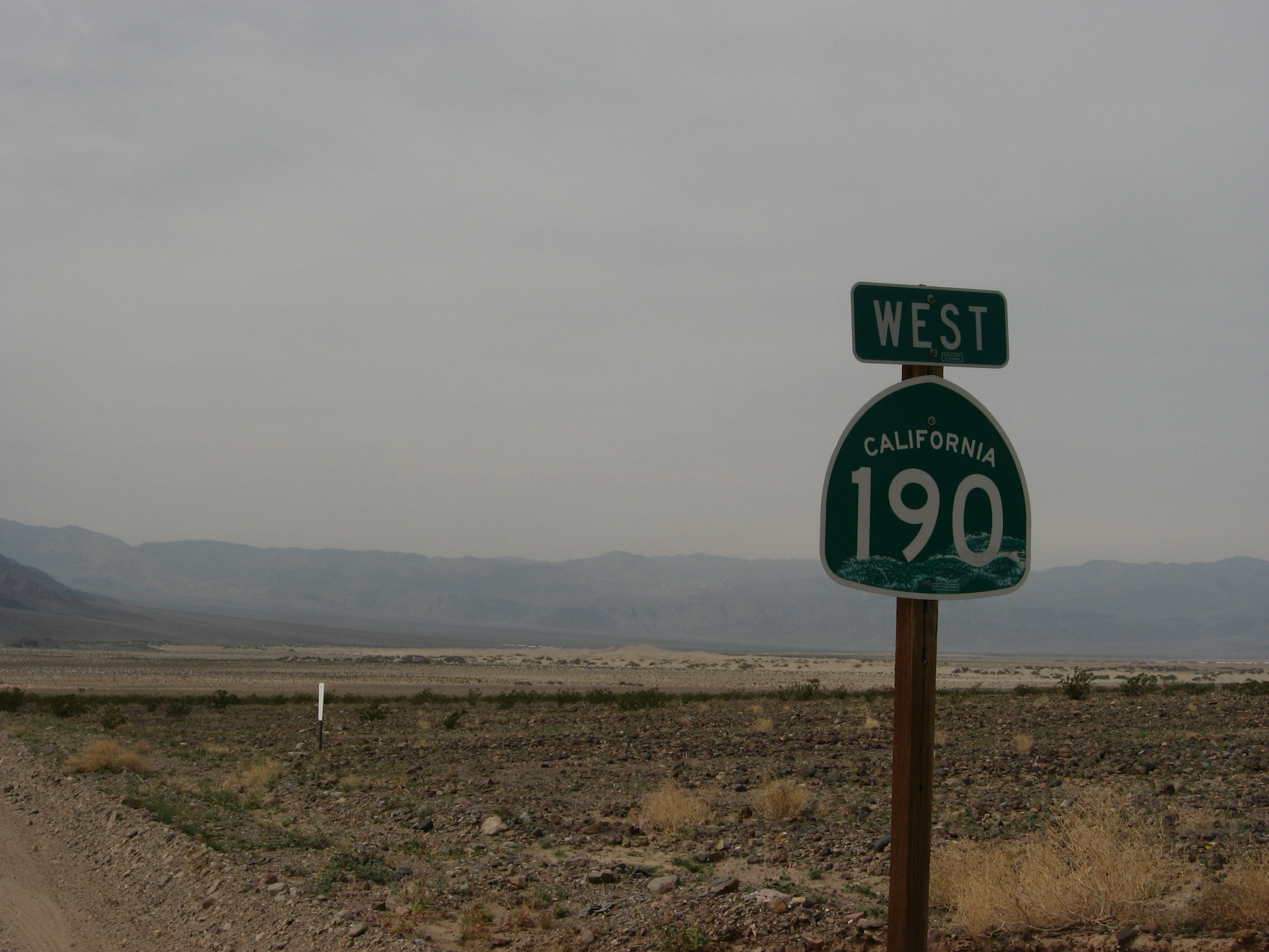 Death Valley — the mid-valley floor near Stovepipe Wells, with sand dunes, xeric Mojave Desert flora, and the Cottonwood Mountains. In the Inyo County section of Death Valley National Park, eastern California.